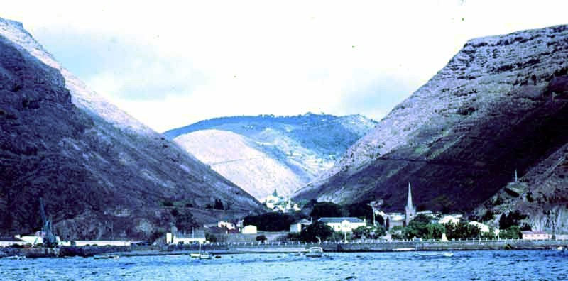 Jamestown, Saint Helena